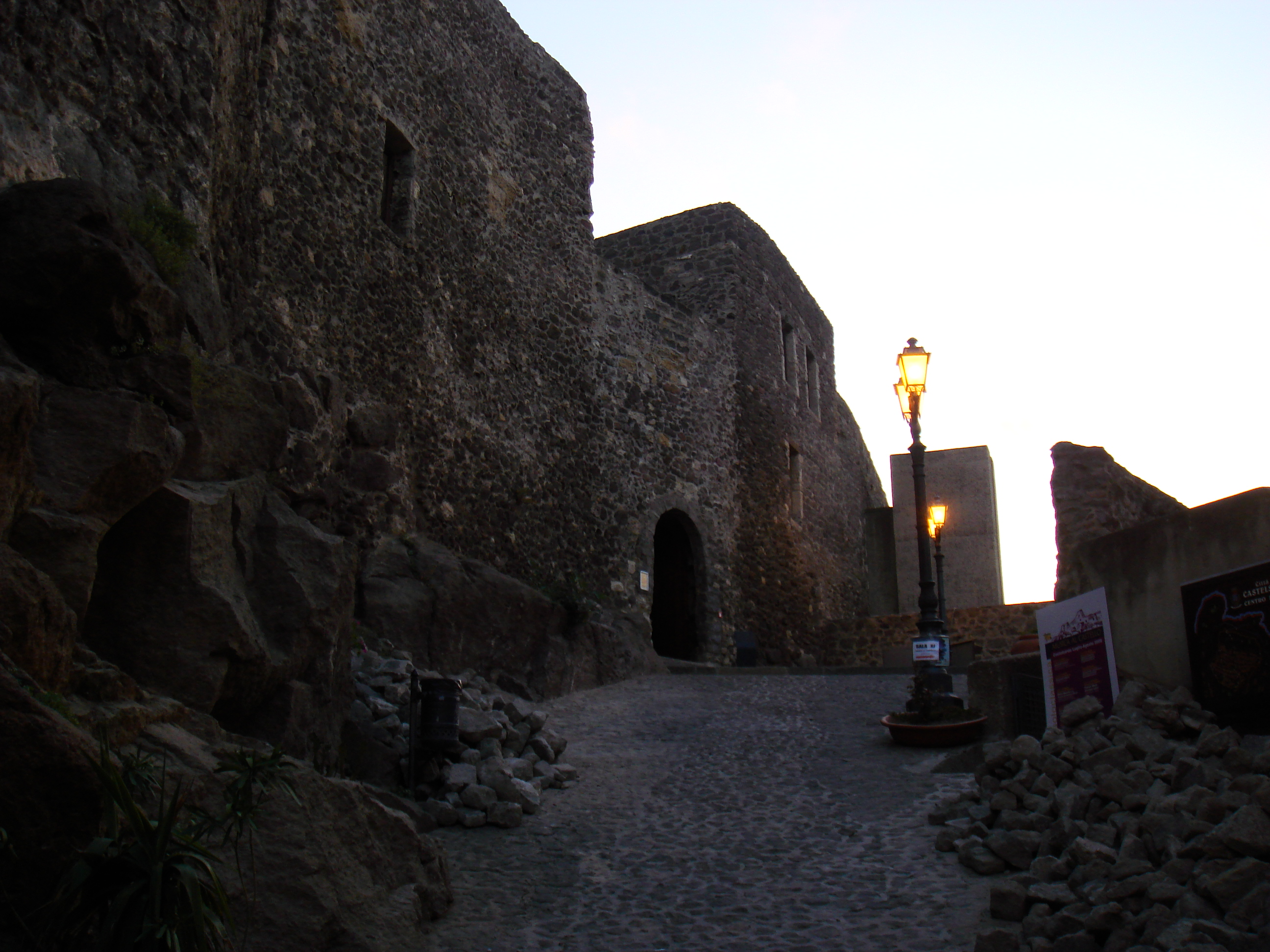 Castle of Castelsardo (Sardinia). Picture by Stefano Bolognini.